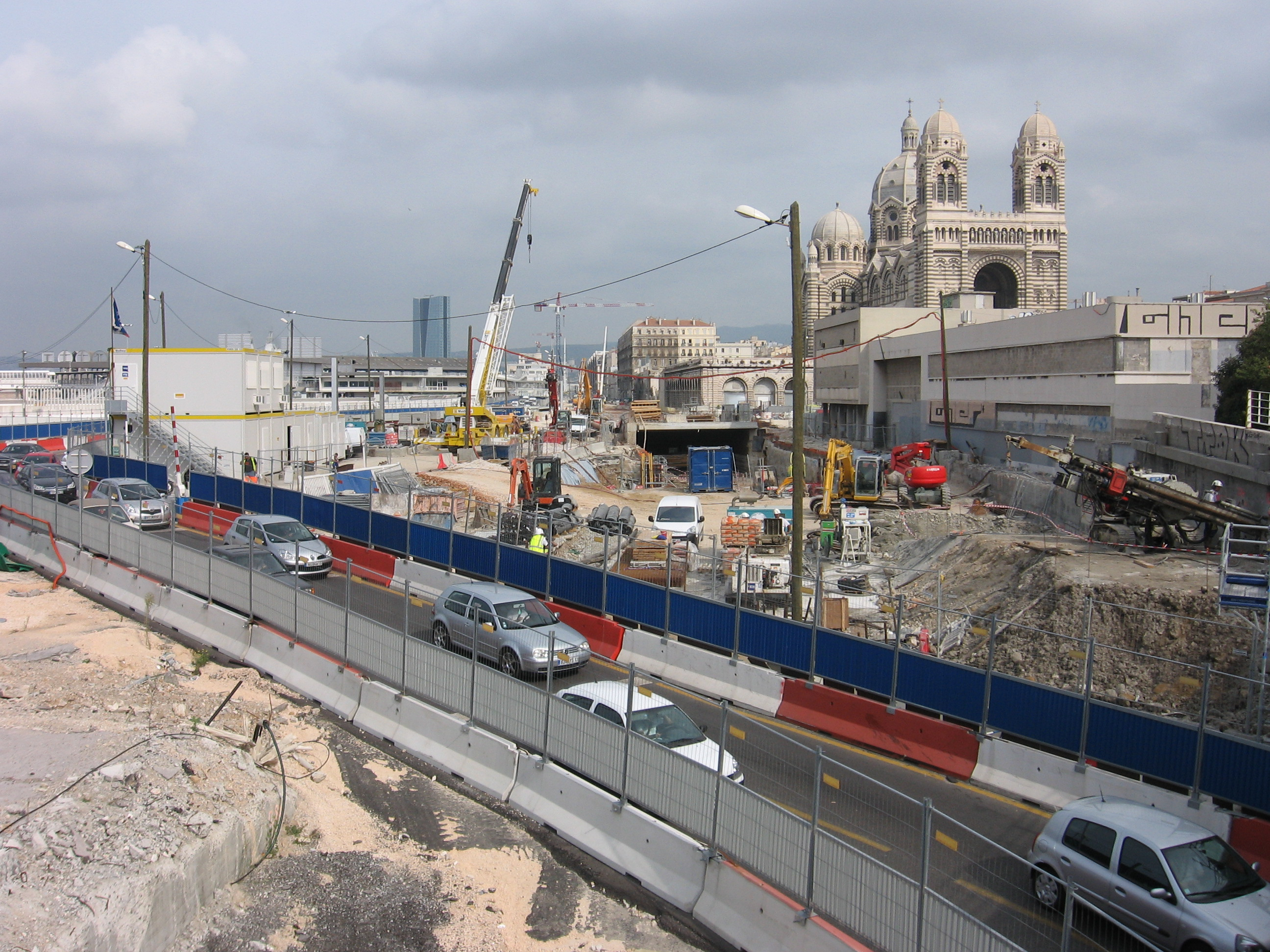 Construction work near Cathédrale de la Major de Marseille